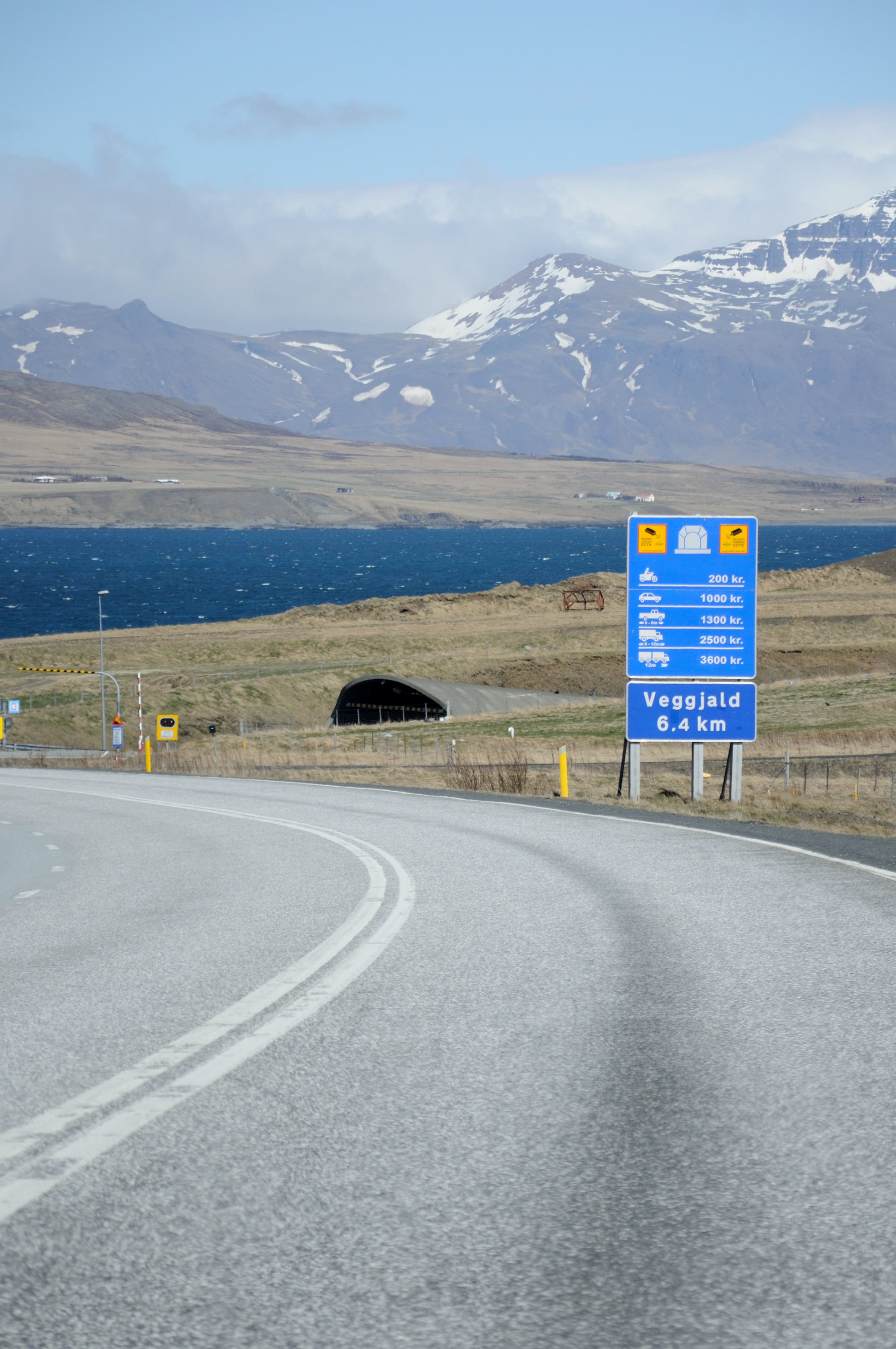 Iceland , impressions on road 1 (Hringvegur) in West Iceland